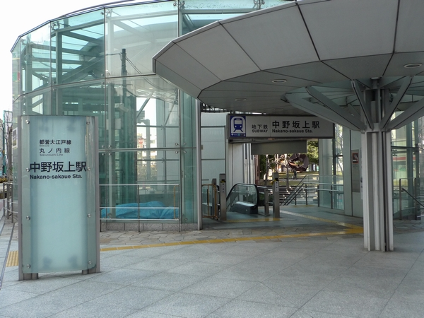 Entrance A1 to Nakano-Sakaue Station in Nakano, Tokyo